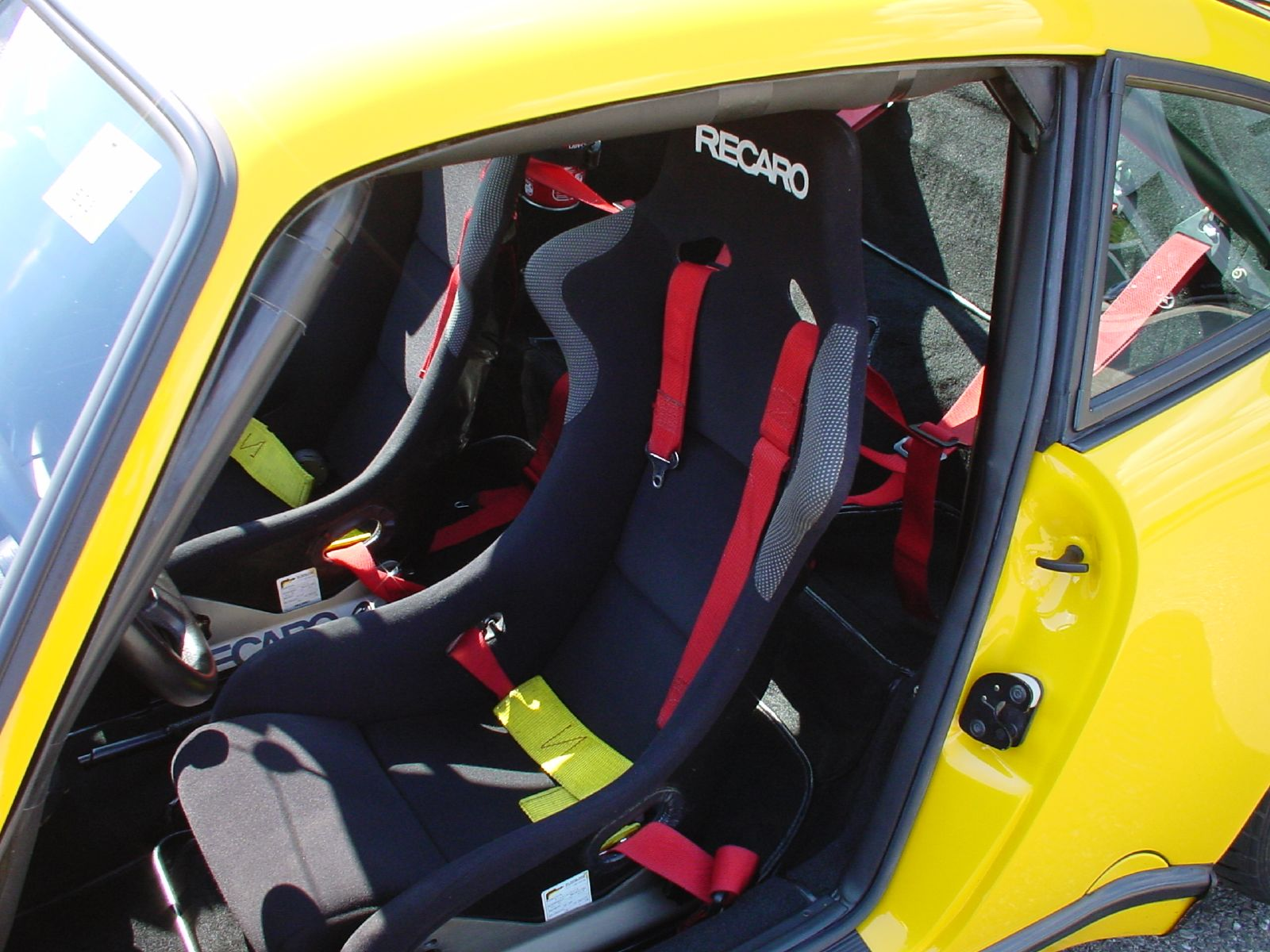 Ruf CTR Yellowbird RECARO seats